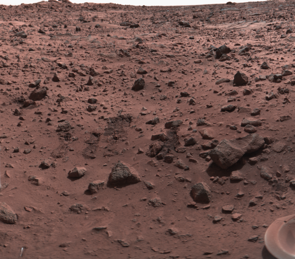 Viking 1 lander image of Chryse Planitia with trenches made by the sampler arm.